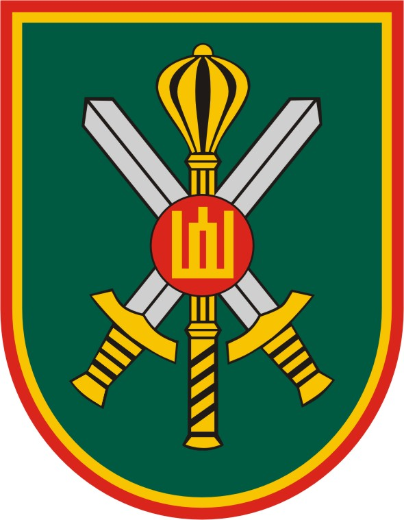 Lithuanian land forces emblem